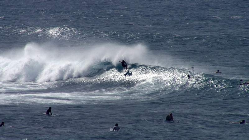 Ho'okipa Beach Surfing Maui